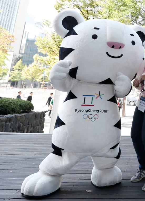 Soohorang, the 2018 Winter Olympic Mascot.